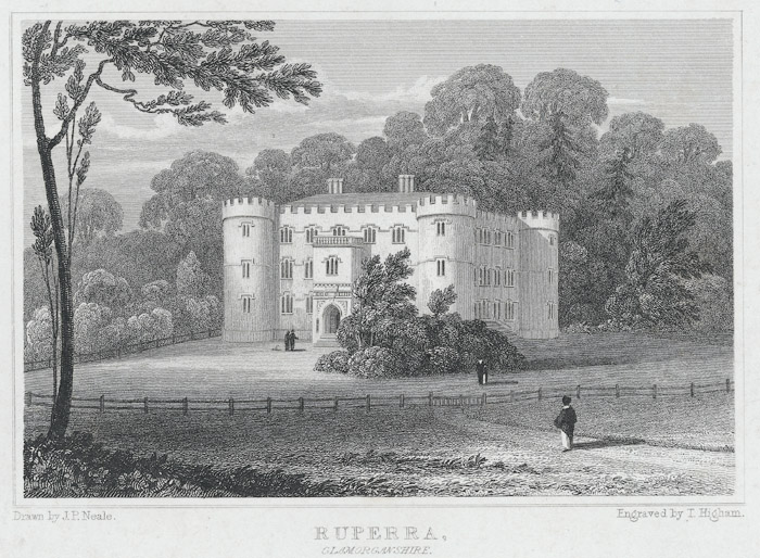 A view of a large mansion and its grounds with a few figures in the foreground.